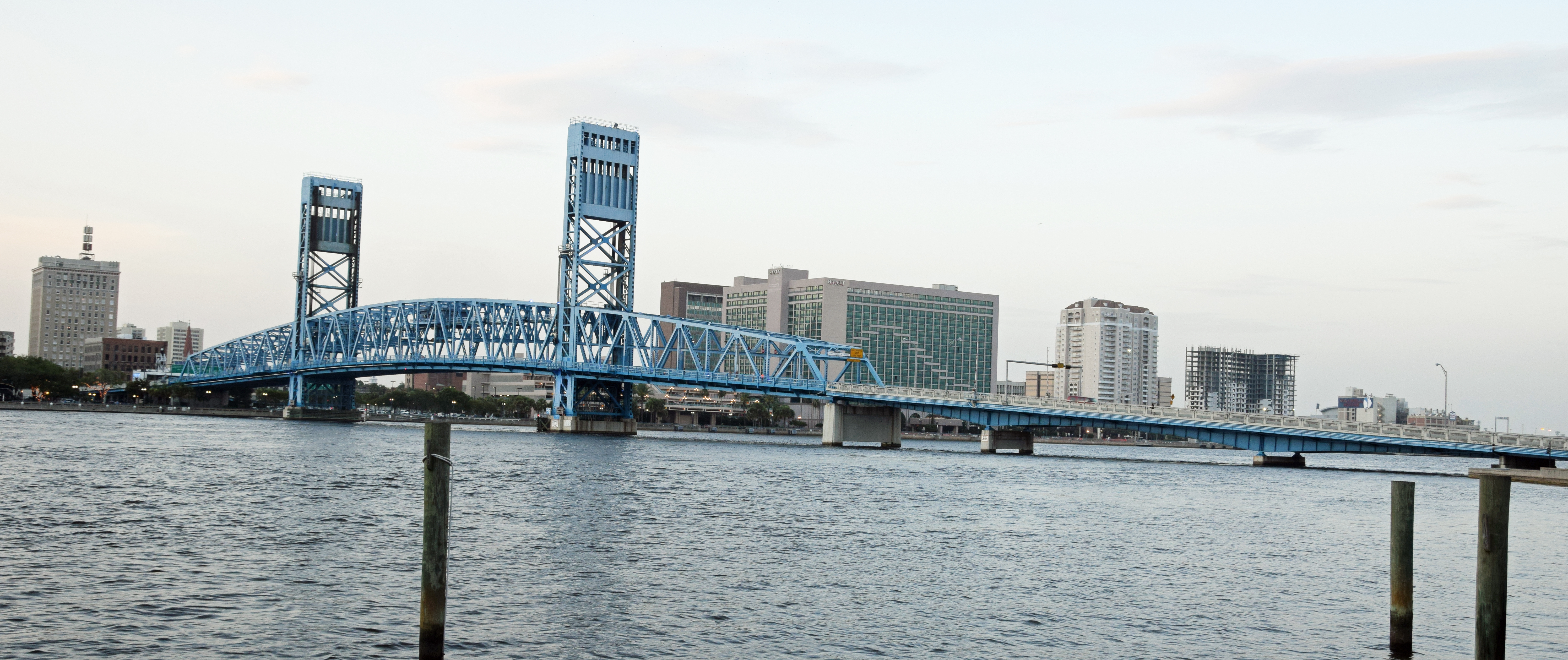 The Main Street Bridge in Jacksonville, Florida, US